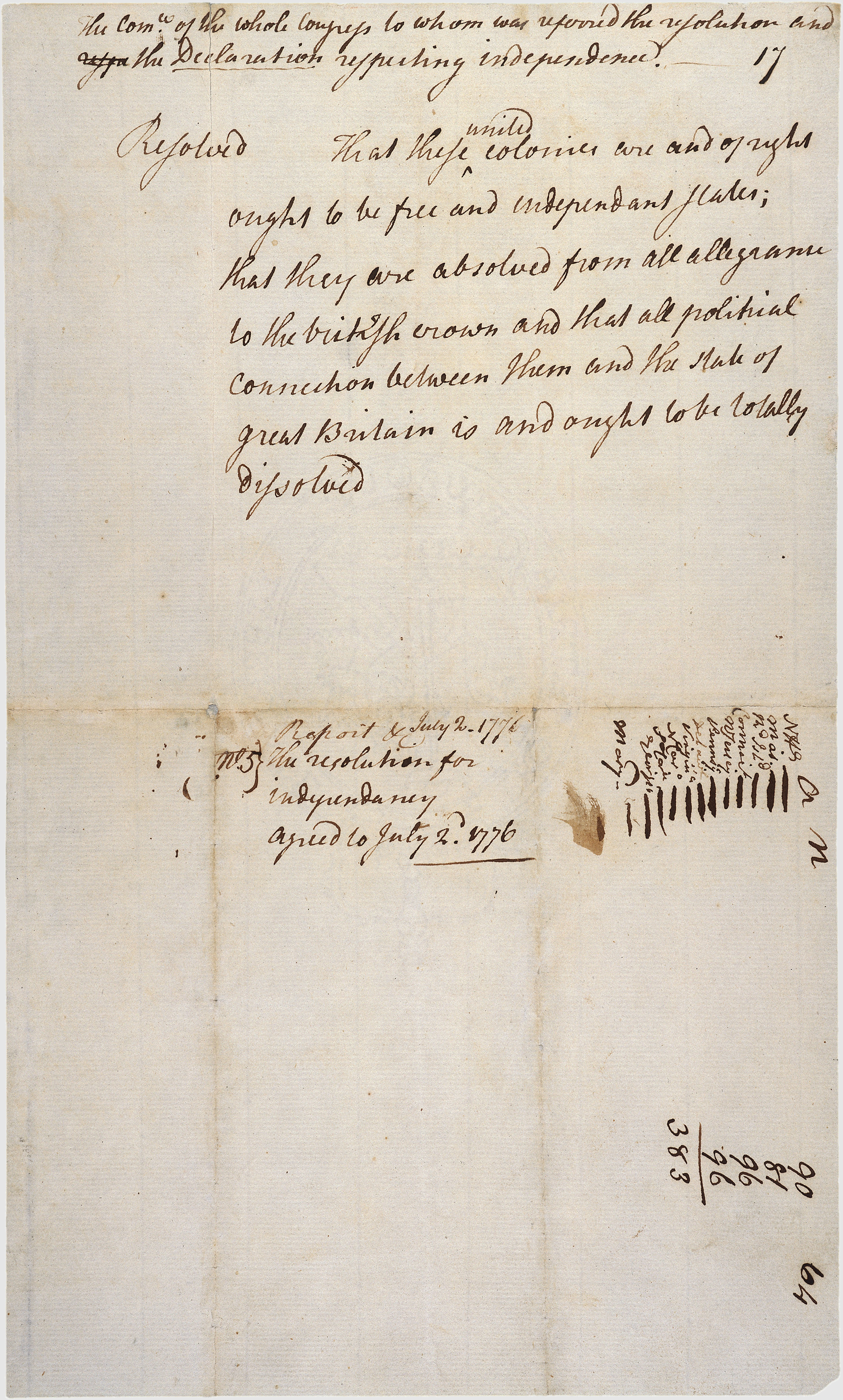 The Lee Resolution for Independency. This proposal was presented to the Continental Congress on 7 June 1776, by Richard Henry Lee of Virginia, with the motion seconded by John Adams of Massachusetts. The image documents the vote taken by the Continental Congress on July 2, 1776, where they asserted independence from Great Britain. 12 colonies are recorded as having voted in the affirmative. New York delegates did not deem themselves to be empowered for such a vote, so they abstained. The official record ( shows this resolution as being the 5th action taken on July 2nd. This document says "No.5".